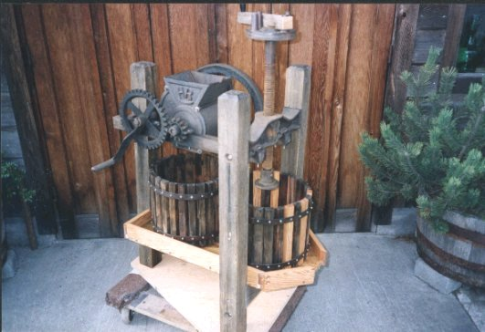 Small farm style apple press circa 1950, USA